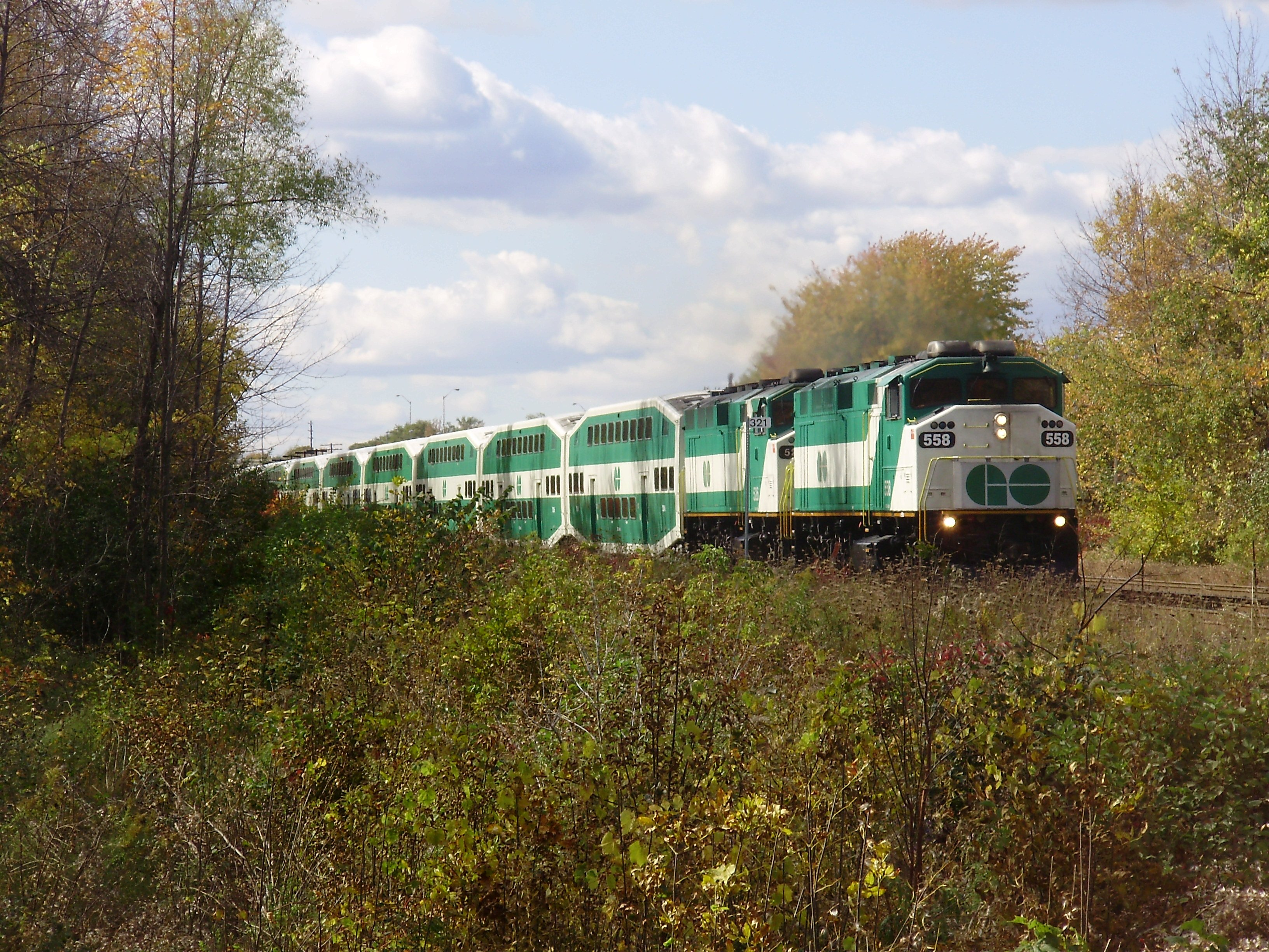 GO Transit engine #558, an EMD F59PH III diesel locomotive, approaches a level crossing at Galloway Road as it pulls its train east from Guildwood station on Lakeshore East line service in Scarborough, Ontario, Canada.